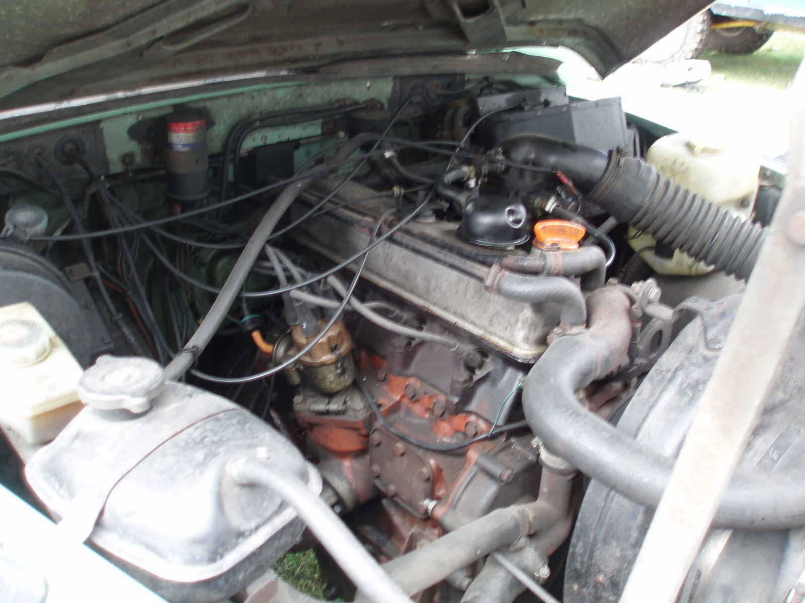 A Land Rover 2.25-litre 4-cylinder petrol engine fitted in an early One Ten model. This later engine has a 5-bearing crankshaft.